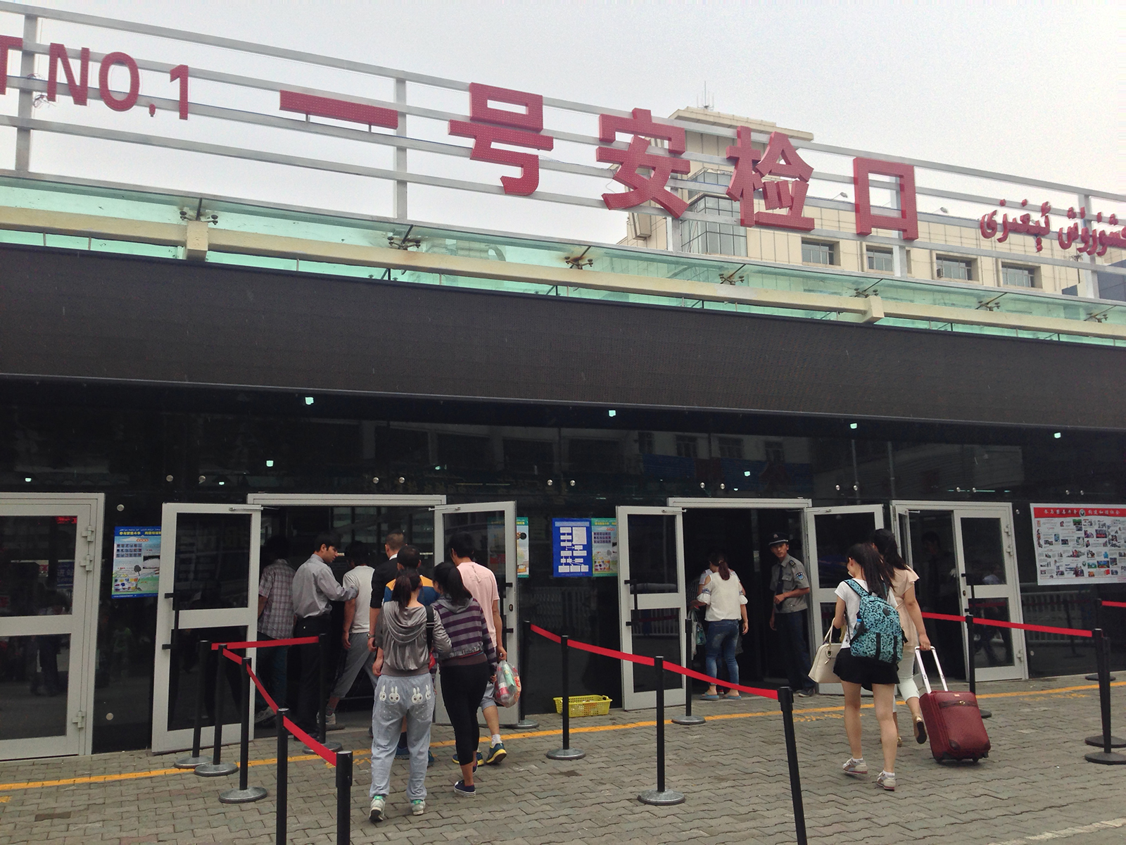 After South Railway Station blast, official start to build security checkpoints on the square ahead south railway station since May 26. The image shows the No.1 security checkpoint at South Railway Station.